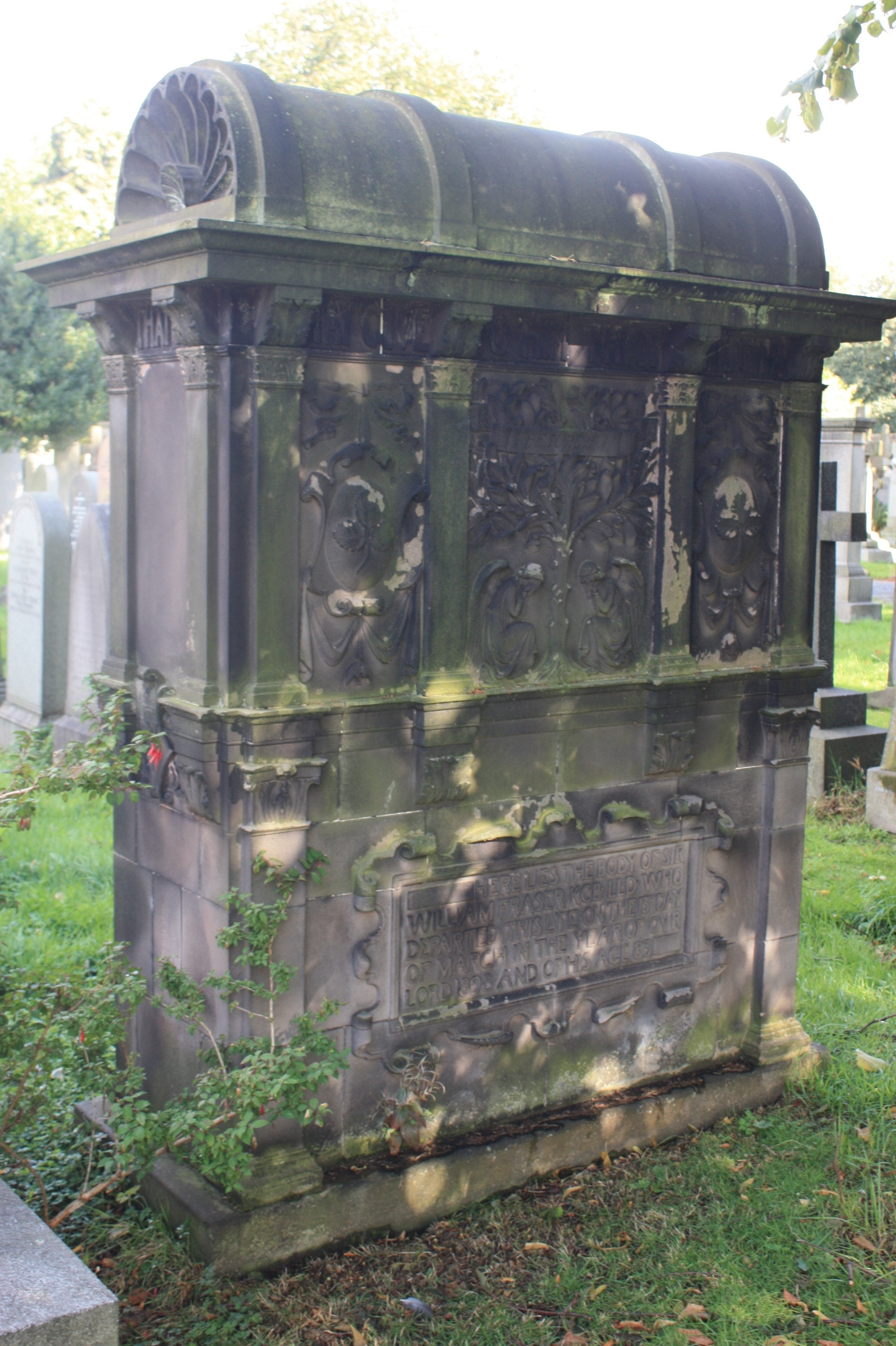 Sir William Fraser's grave, Dean Cemetery